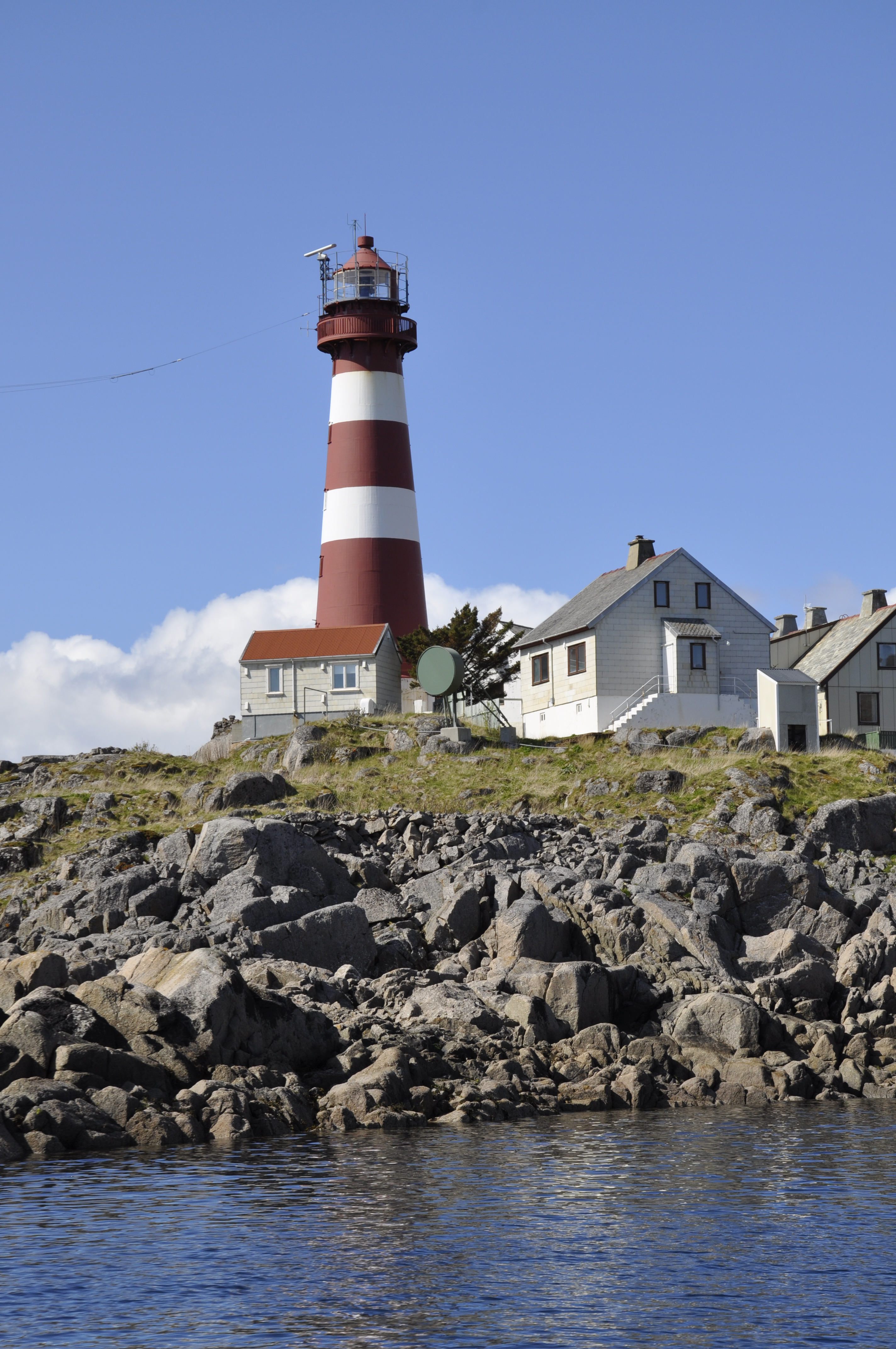 Skrova Lighthouse